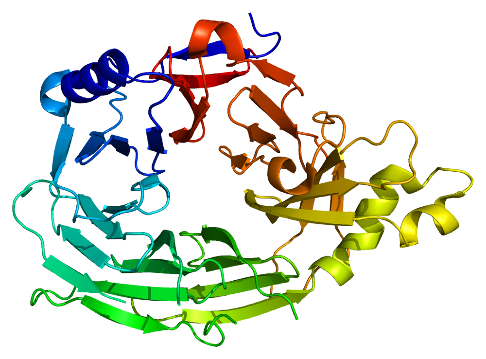 Structure of the NUP133 protein. Based on PyMOL rendering of PDB 1xks.